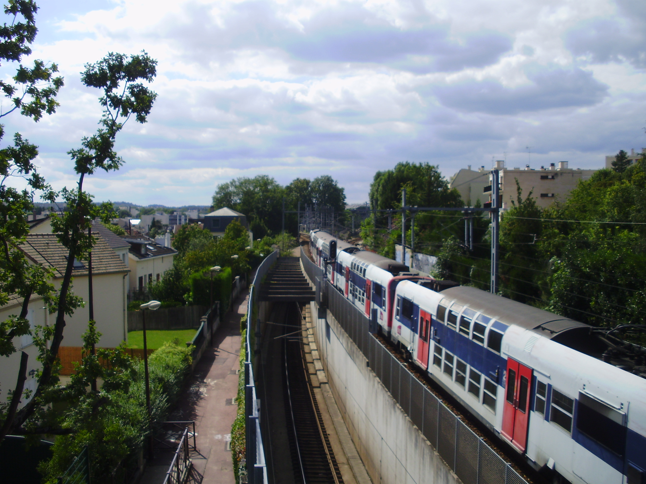 Junction of Viroflay (Rive Droite), in Viroflay, Yvelines, France (seen from the Rue des Marais bridge) with a train using the Viroflay viaduct and going to La Verrière